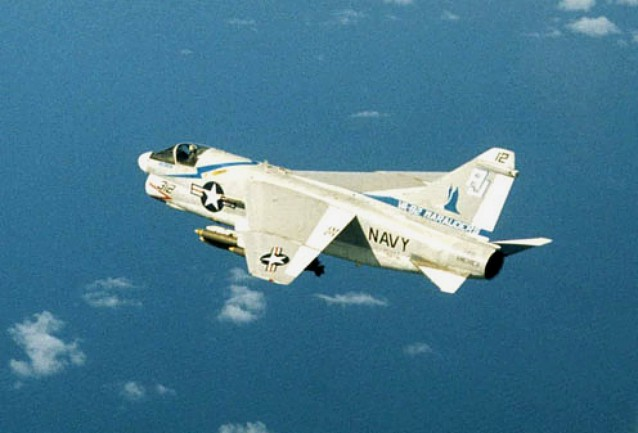 A U.S. Navy Ling Temco Vought A-7C-2-CV Corsair II (BuNo 156745, c/n C-012) from attack squadron VA-82 Marauders en route to a target in Vietnam in 1972/73. VA-82 was assigned to Attack Carrier Air Wing 8 (CVW-8) aboard the aircraft carrier USS America (CVA-66) for a deployment to Vietnam from 5 June 1972 to 24 March 1973. The A-7C 156745 was later converted to an TA-7C, then to an EA-7L. It was retired to the AMARC as 6A0405 on 25 September 1991.